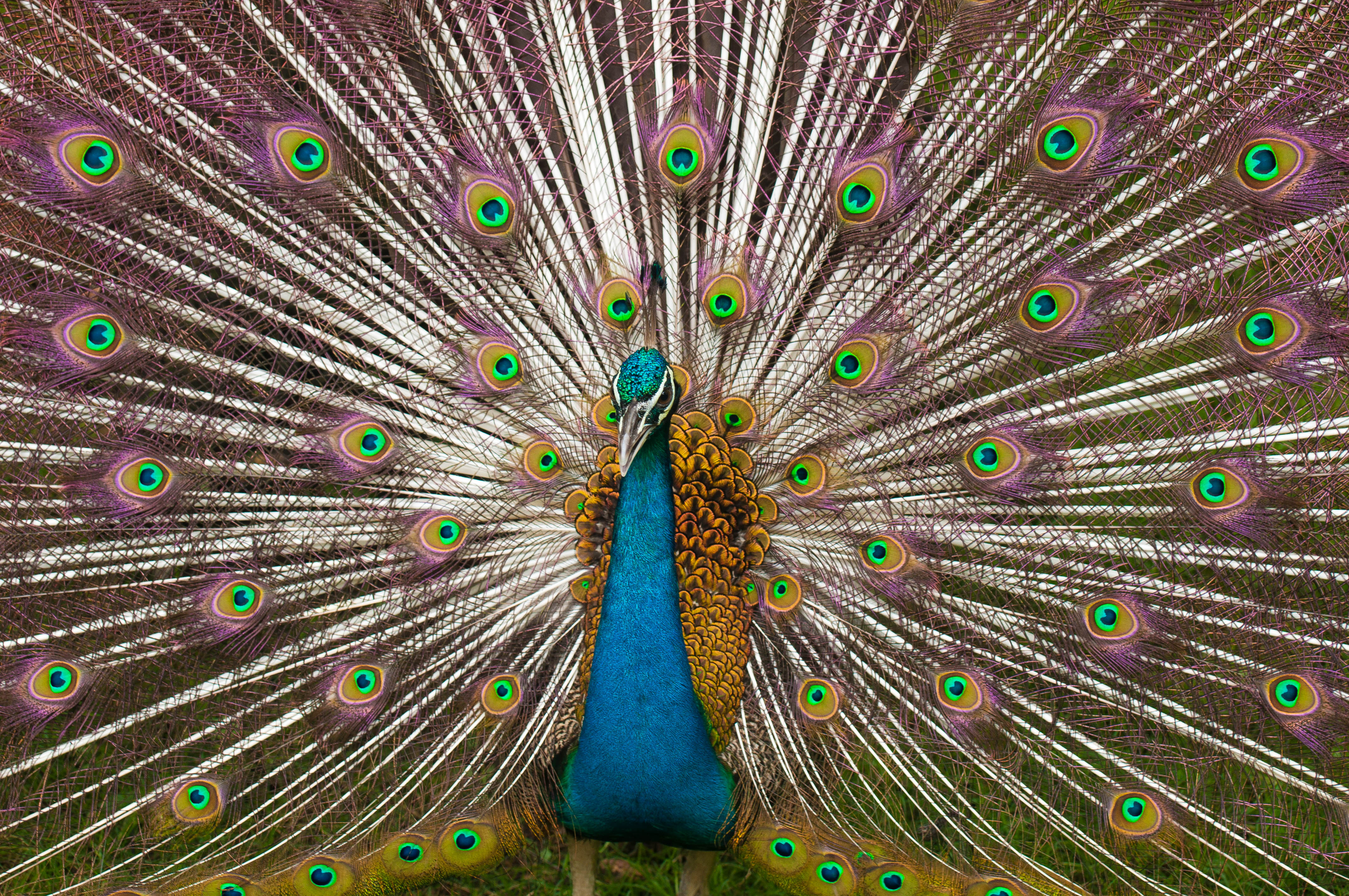 Indian Peacock (Pavo cristatus), diplaying tail plumage